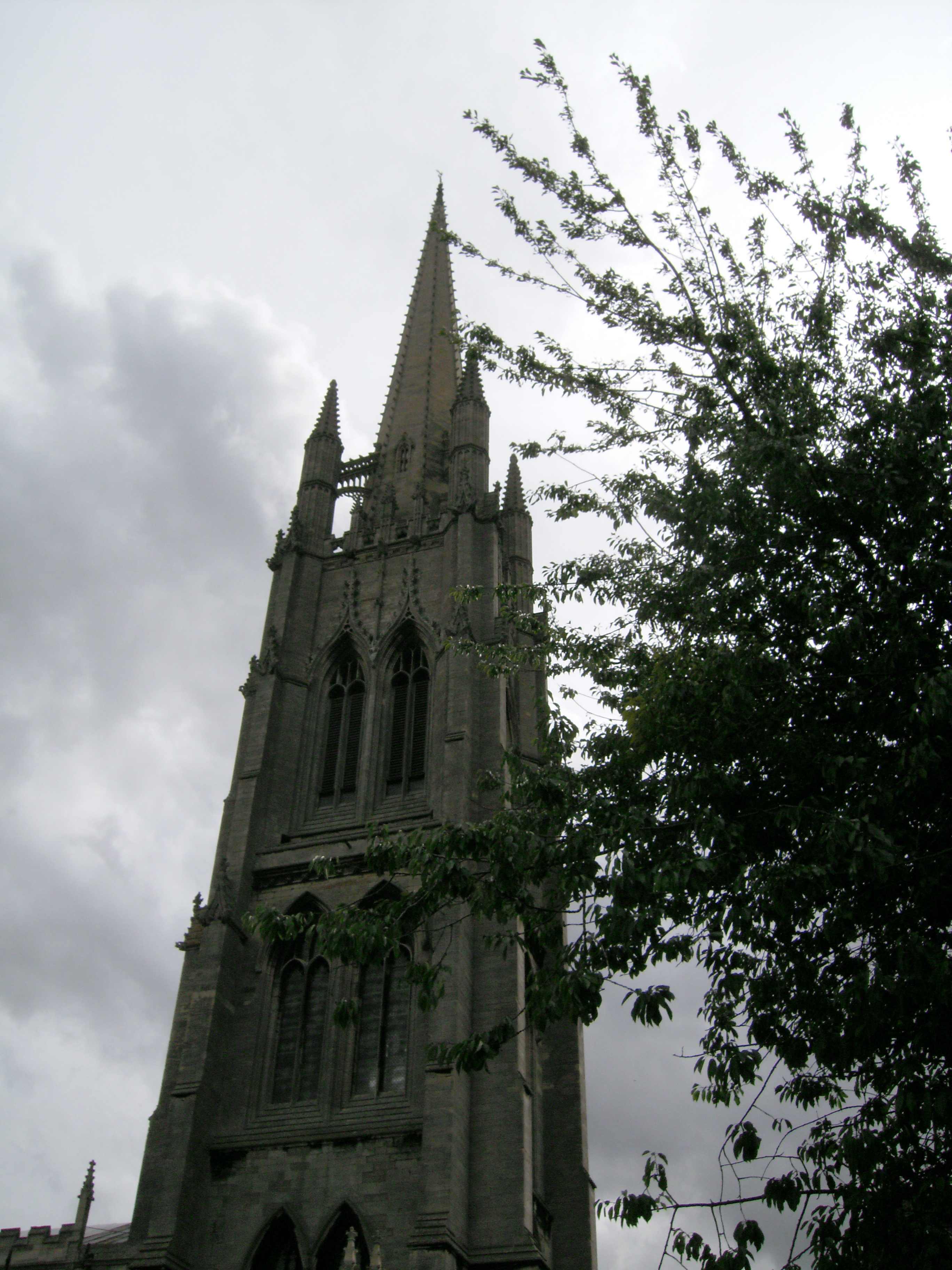 Tower and spire of parish church of St James, Louth, Lincolnshire, England, UK.